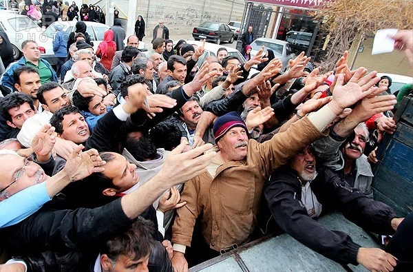 Distribution of the basket of goods, Shiraz - 3 February 2004 (13921114160732428)